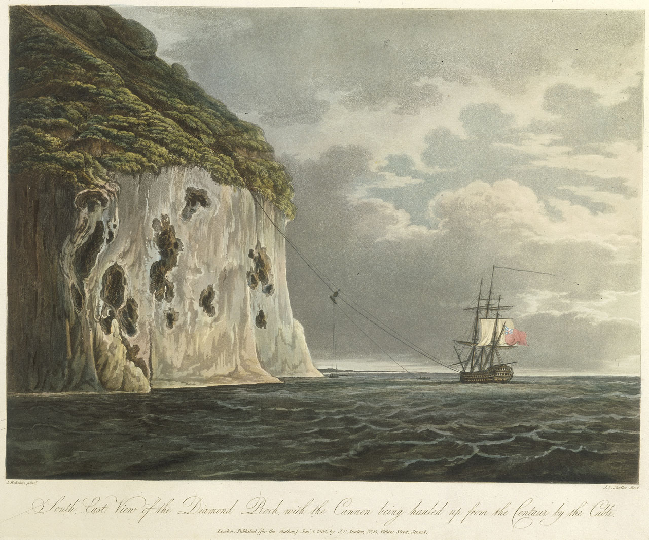 Picturesque Views of the Diamond Rock... South East View of the Diamond Rock, with the Cannon being hauled up from the Centaur by the Cable Materials: aquatint & etching, coloured Measurements: Sheet: 470 x 590 mm; Mount: 607 mm x 836 mm PAH9544